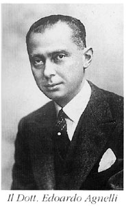 Edoardo Agnelli, italian entepreneur, son of Giovanni Agnelli (senior), father of Gianni Agnelli.